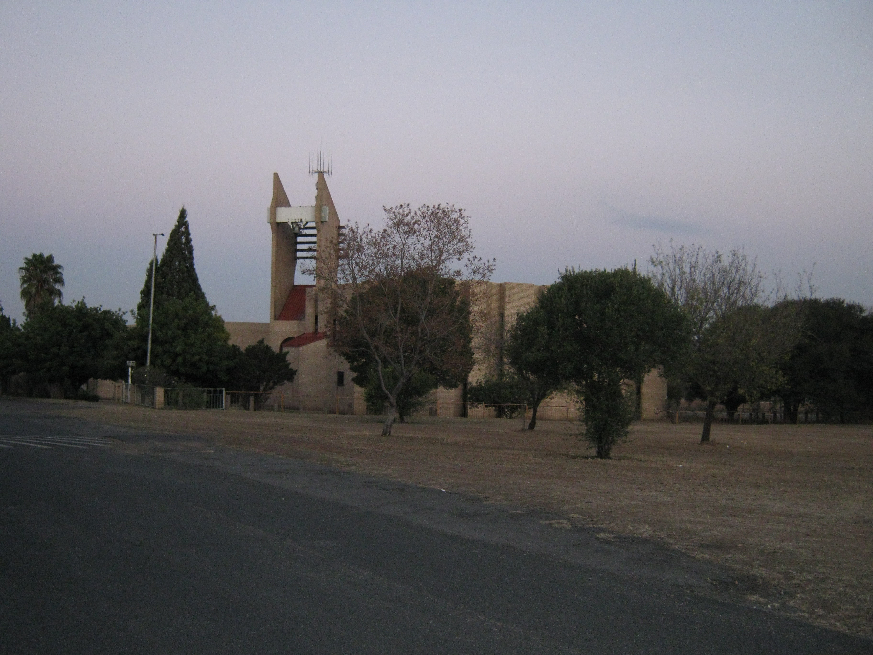 The third church building of the Gereformeered Kerk, Germiston.